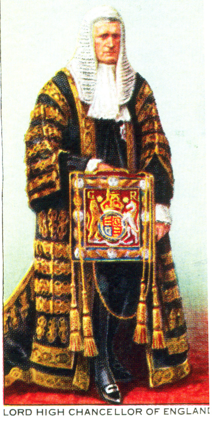 Player's cigarettes. Coronation series, ceremonial dress